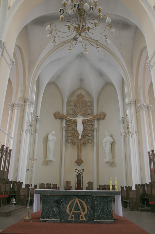 Cathedral of the Immaculate Conception of the Holy Virgin Mary, Moscow. Main altar (design by Jan Teichmann, 1996).